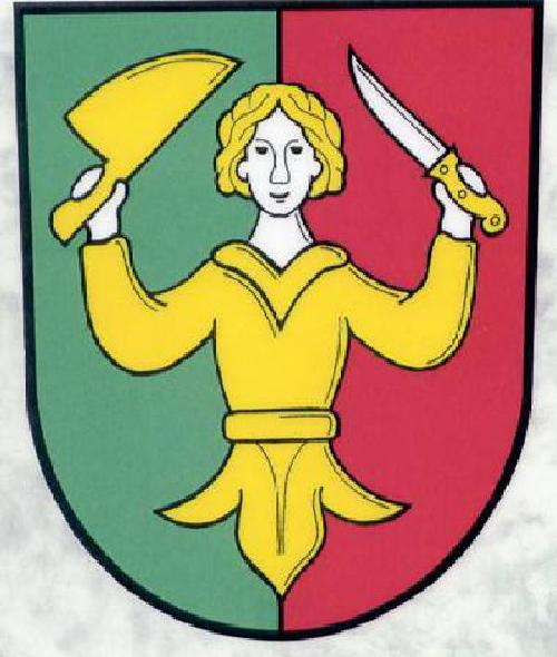 Municipal coat of arms of Olbramice village, Ostrava-City District, Czech Republic.